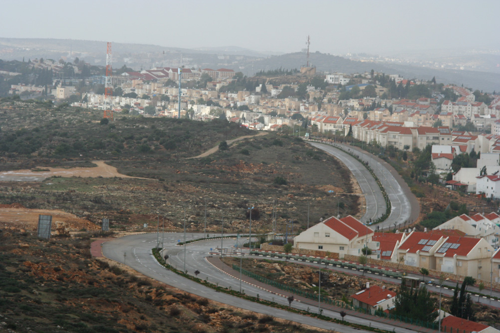 Arieal, Shomron, West Bank Beivushtang 08:11, 16 November 2006 (UTC)